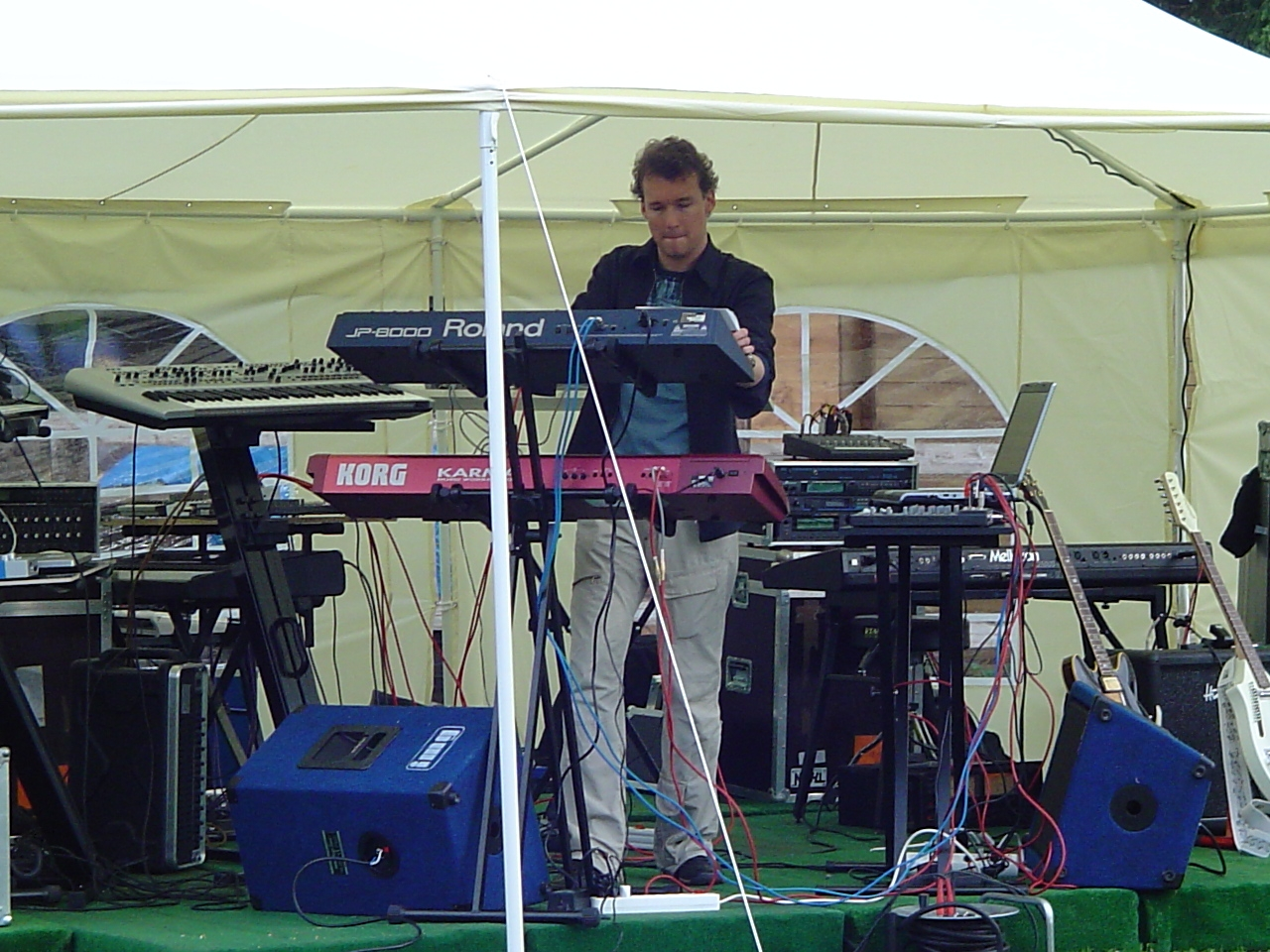 Thomas Gruberski at CUE Open Air Festival 2005